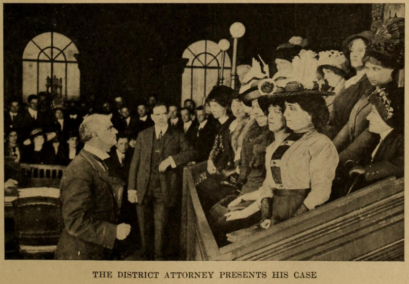 A scene from the Vitagraph silent film version of the photoplay "The First Woman Jury in America" by Alma Webster Hall Powell.